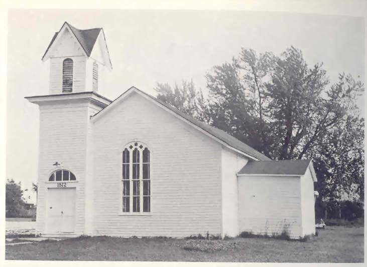 Historic 1872 church in Millard, Missouri.